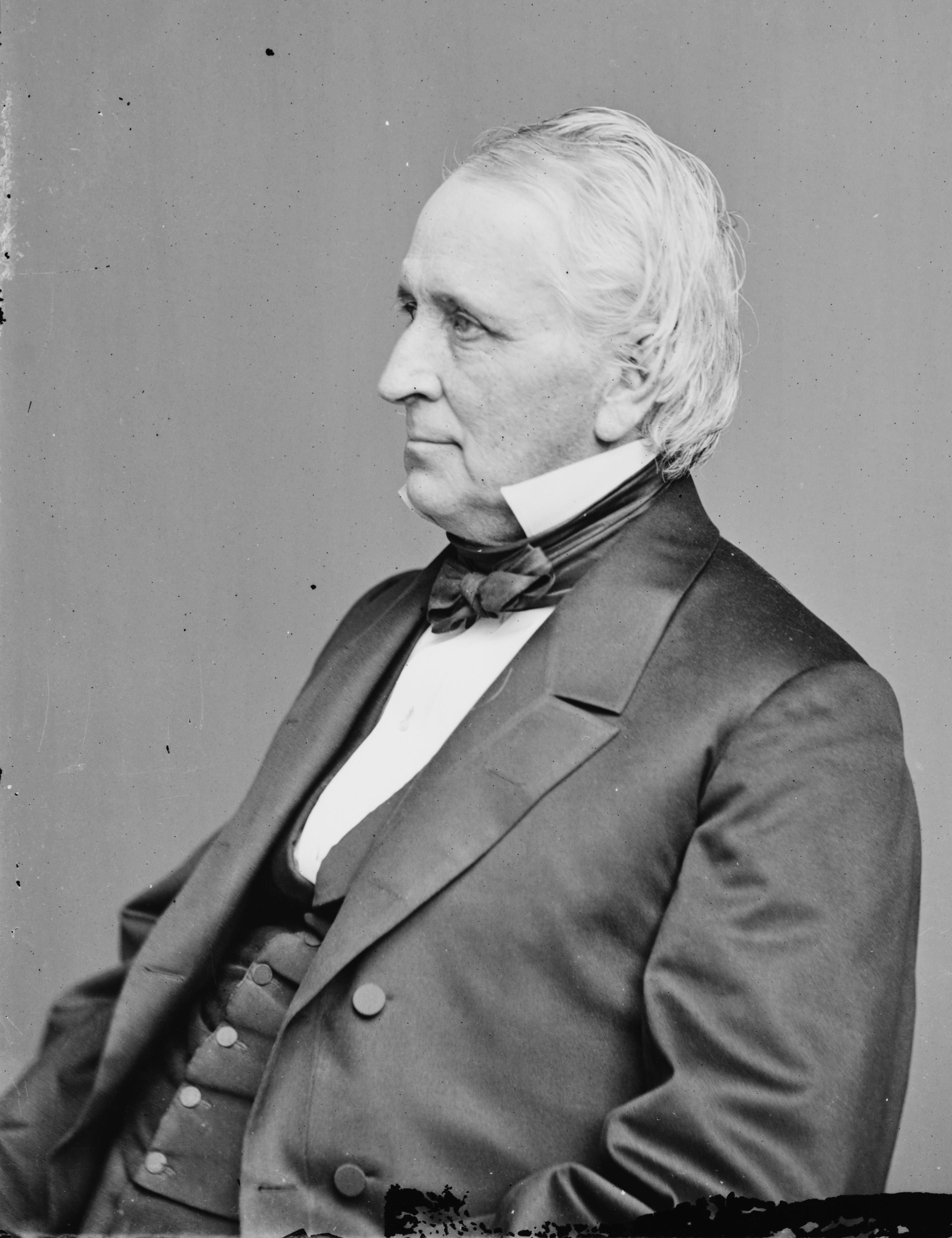 Solomon Foot. Library of Congress description: "Hon. Solomon Foot of Vermont"